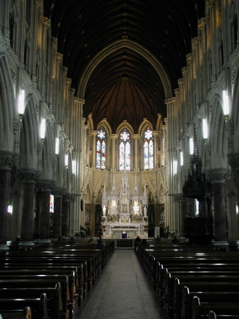 Photo taken 2005